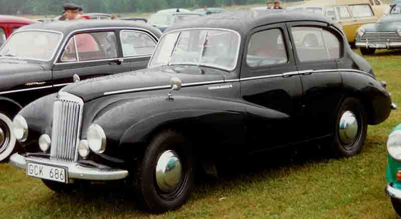 Sunbeam-Talbot 90 4-Door Saloon 1948 N.B. Covers have been removed from rear wheels